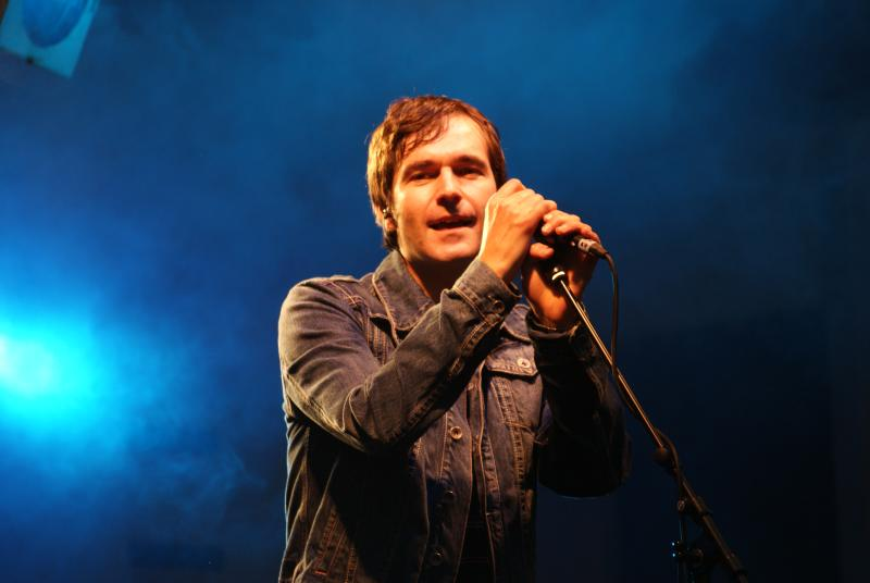 Mark Morriss, lead singer of The Bluetones at the Rochdale Feel Good Festival.